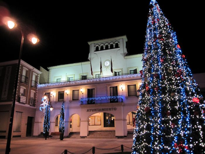 Plaza de la Constitución in San Sebastián de los Reyes, Christmas decorated